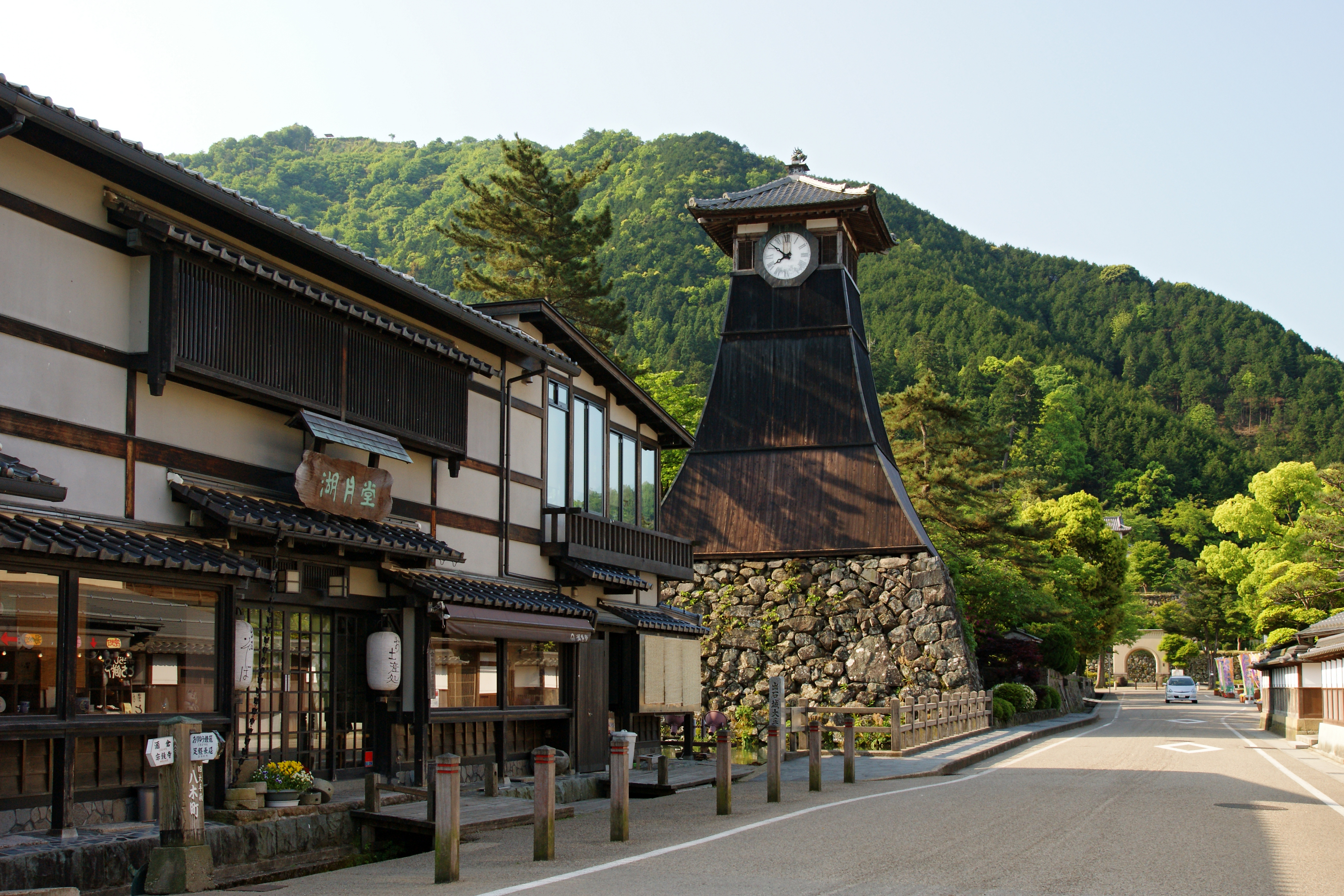 Izushi, Toyooka, Hyogo prefecture, Japan